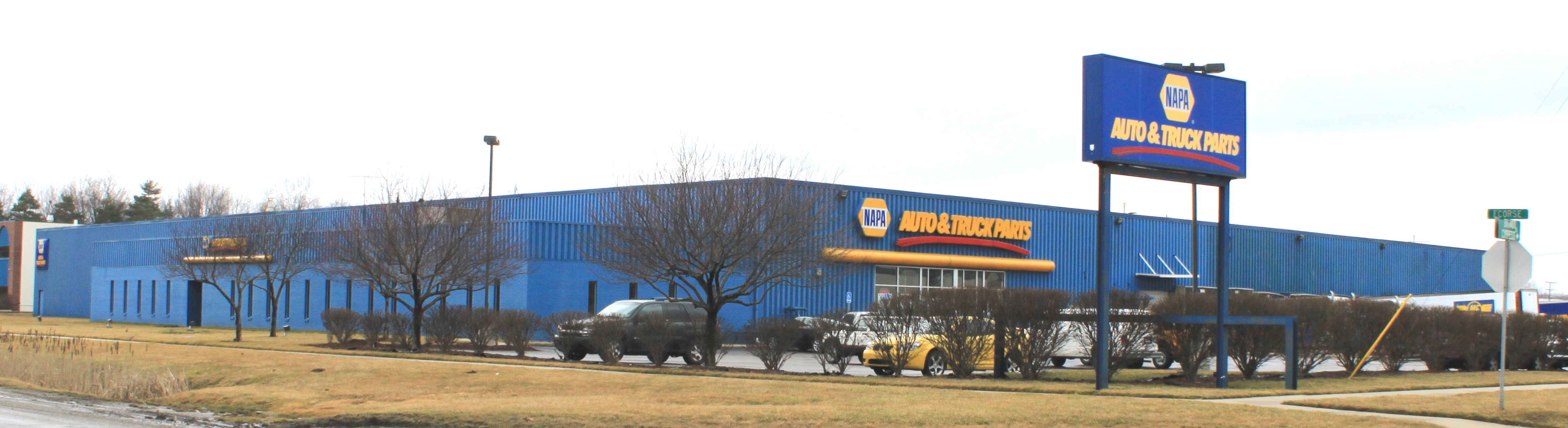 National Automotive Parts Association (NAPA) Detroit Distribution Center, 30550 Ecorse Road, Romulus, Michigan